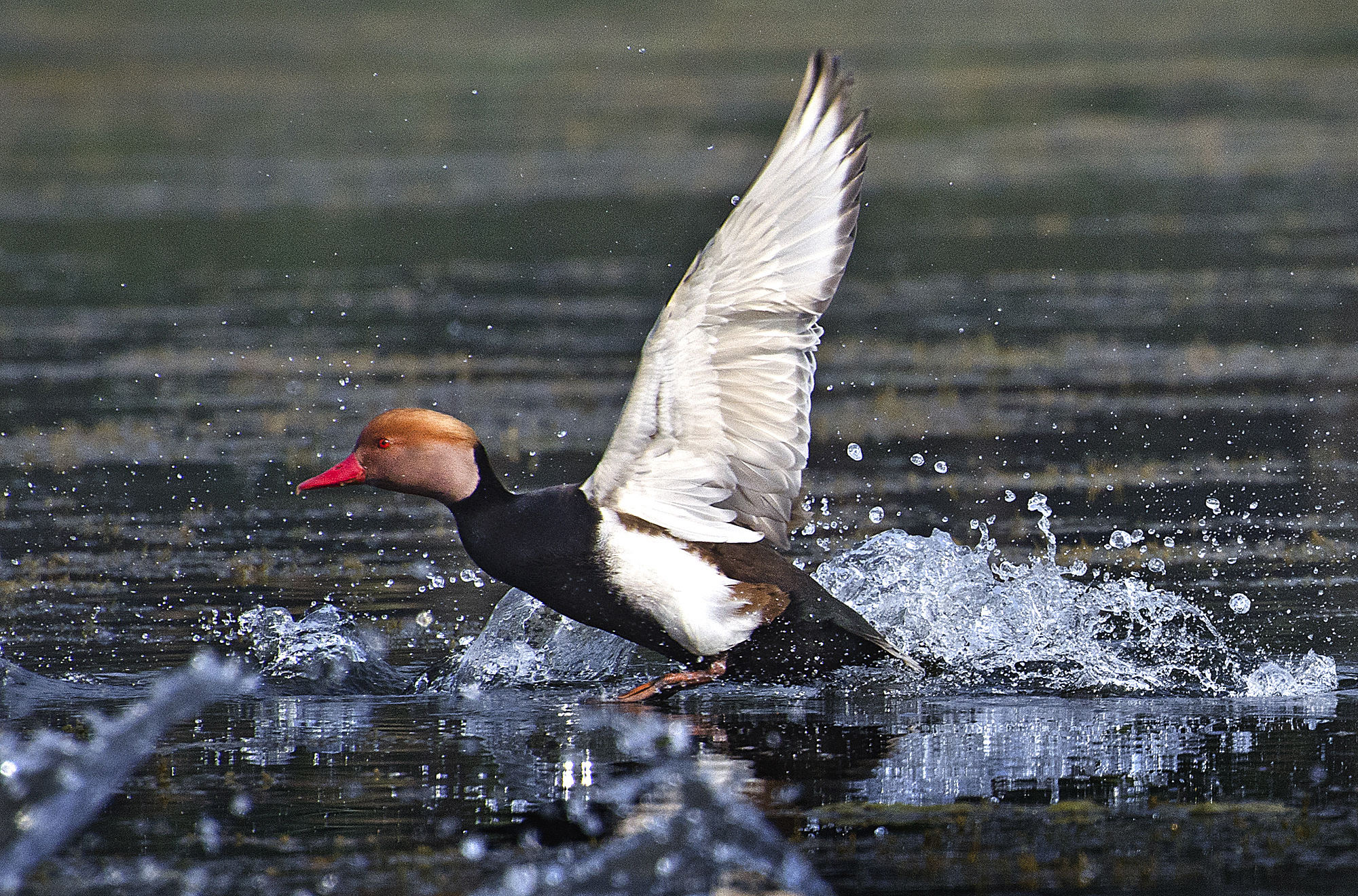 Red crested Pochard